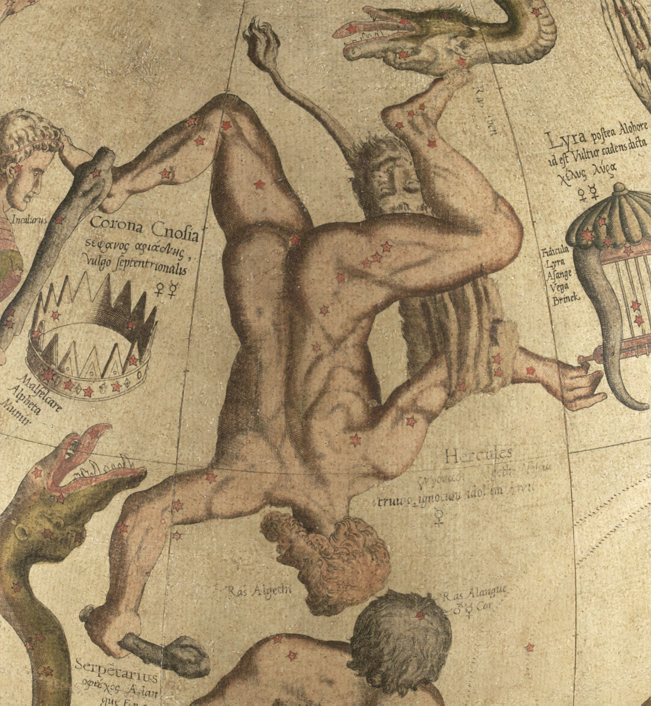 Hercules and Corona_Borealis constellations from the Mercator celestial globe.